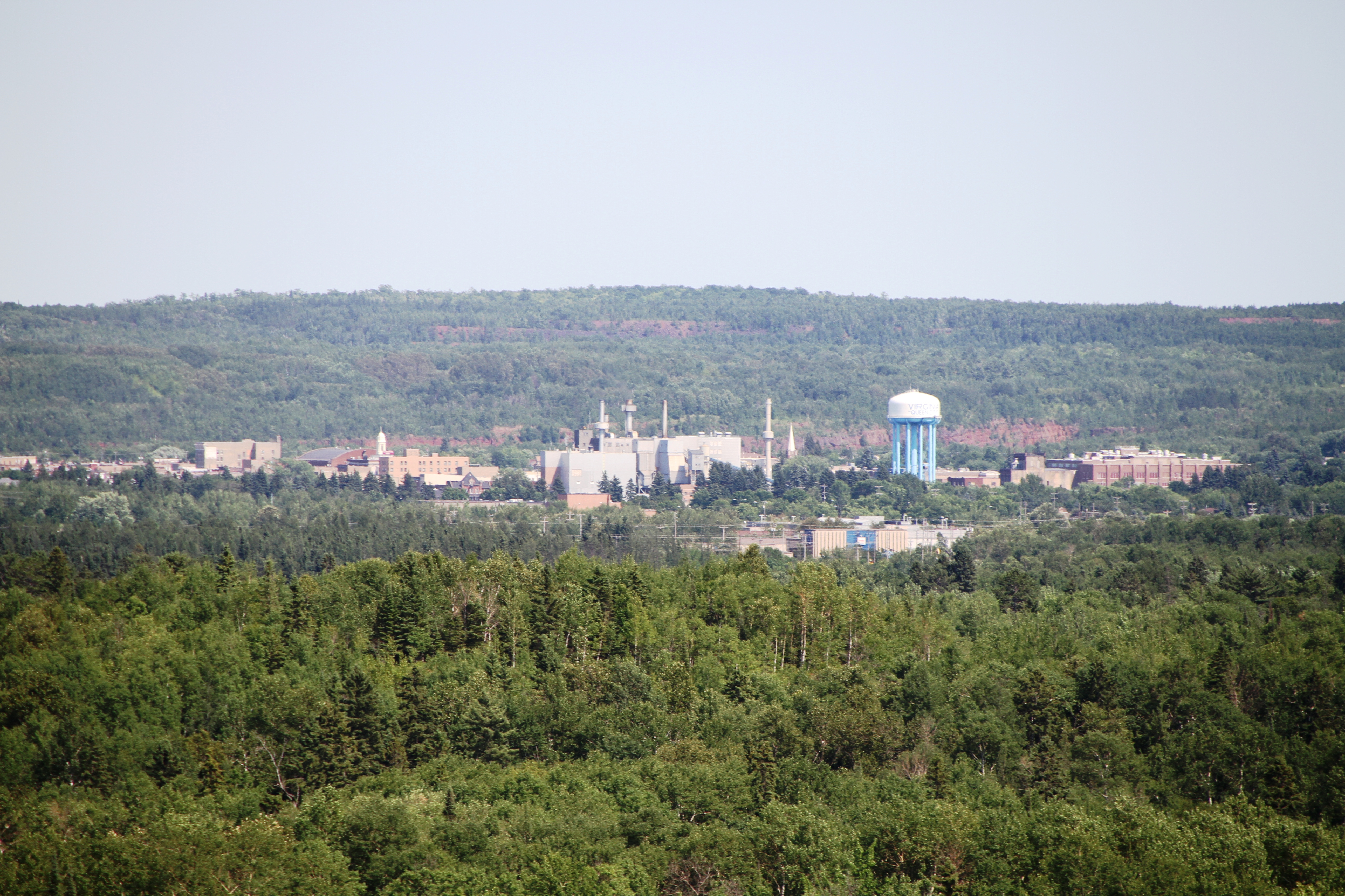 Virginia (Minnesot), seen from the lookout point in Mountain Iron, St Louis County, MN